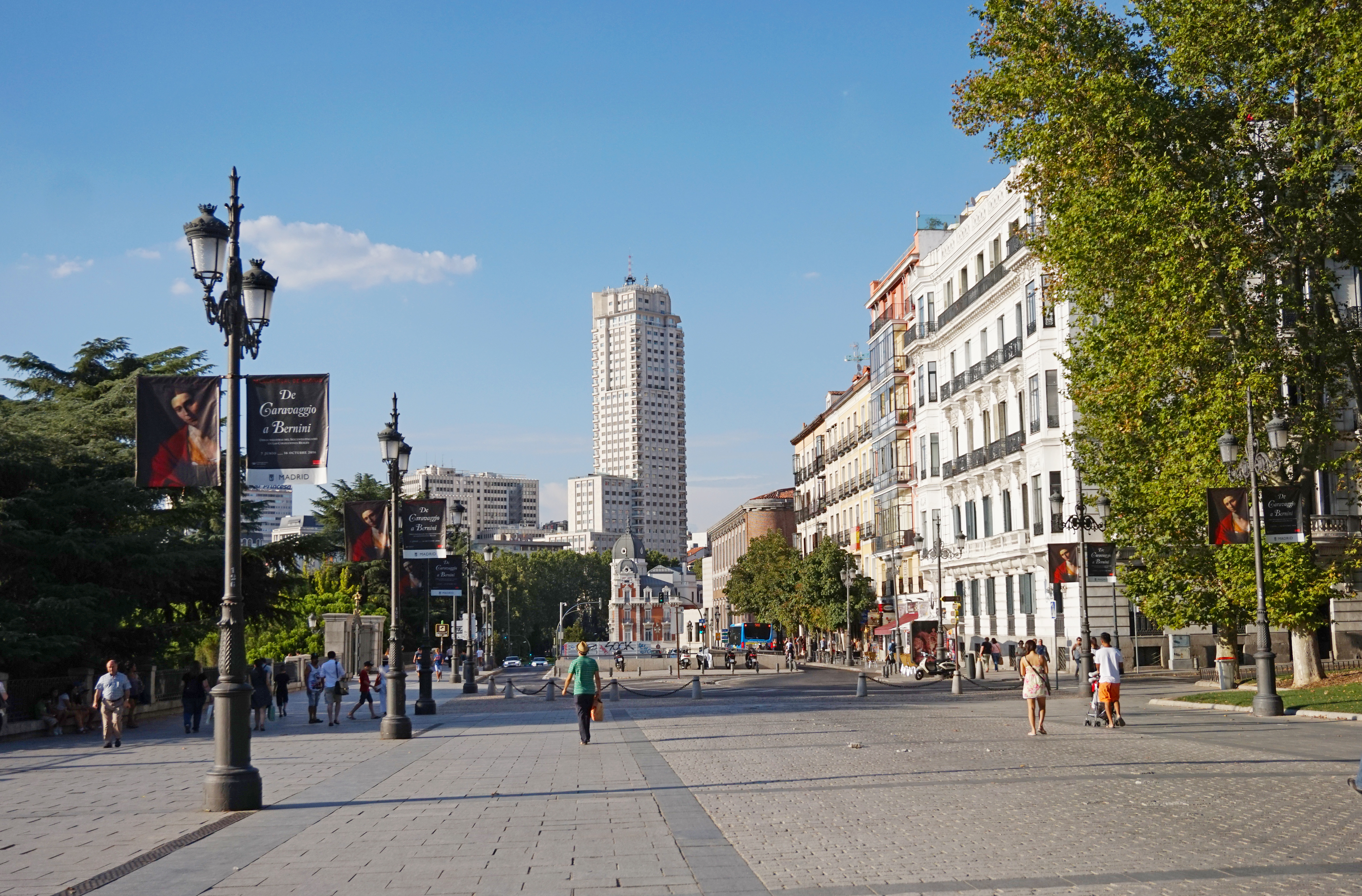 View on the street Calle de Bailén in Madrid, Spain.This photograph was taken with a Sony ILCE-5000